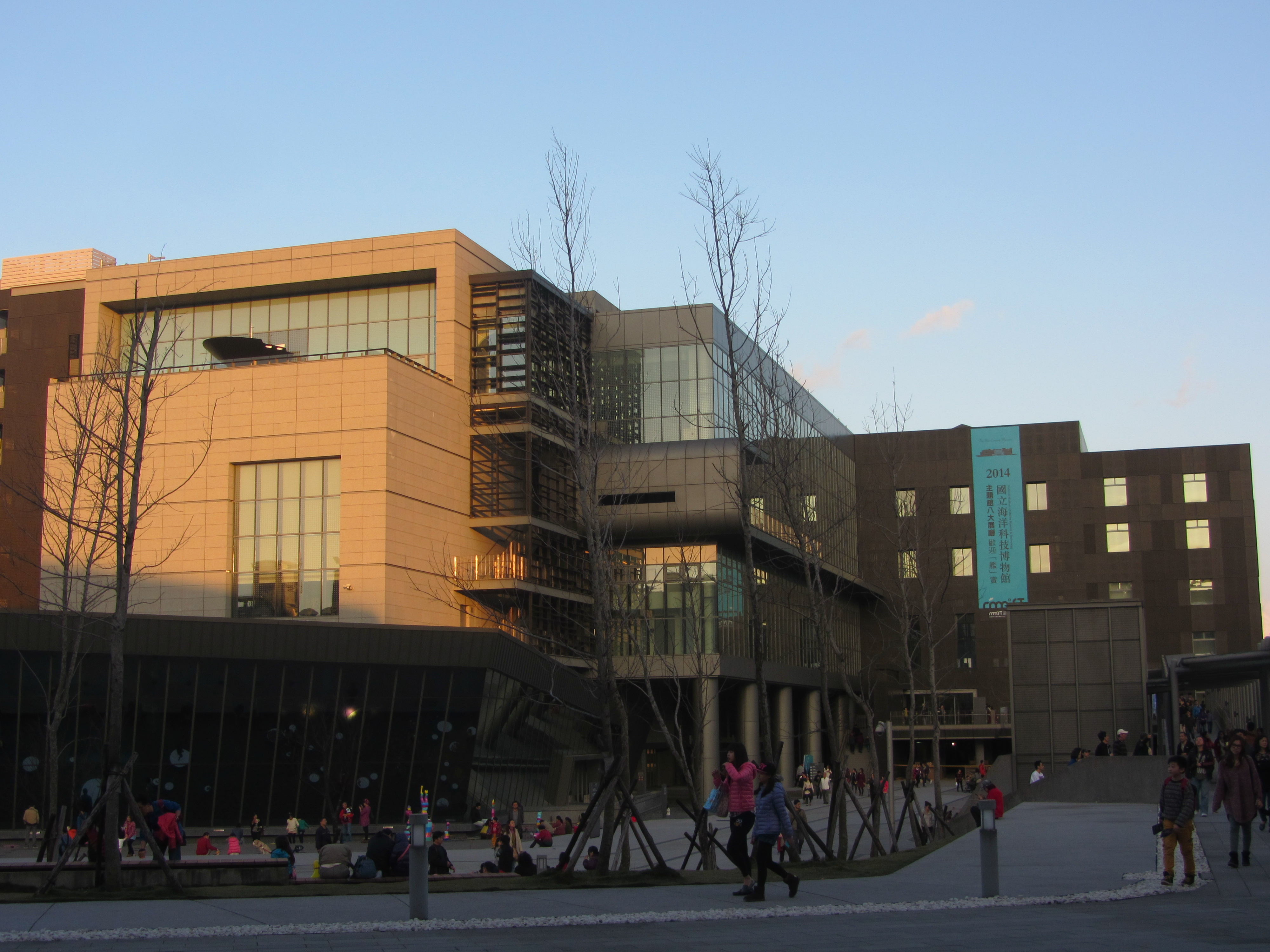 Theme pavilion, National Museum of Marine Science and Technology.